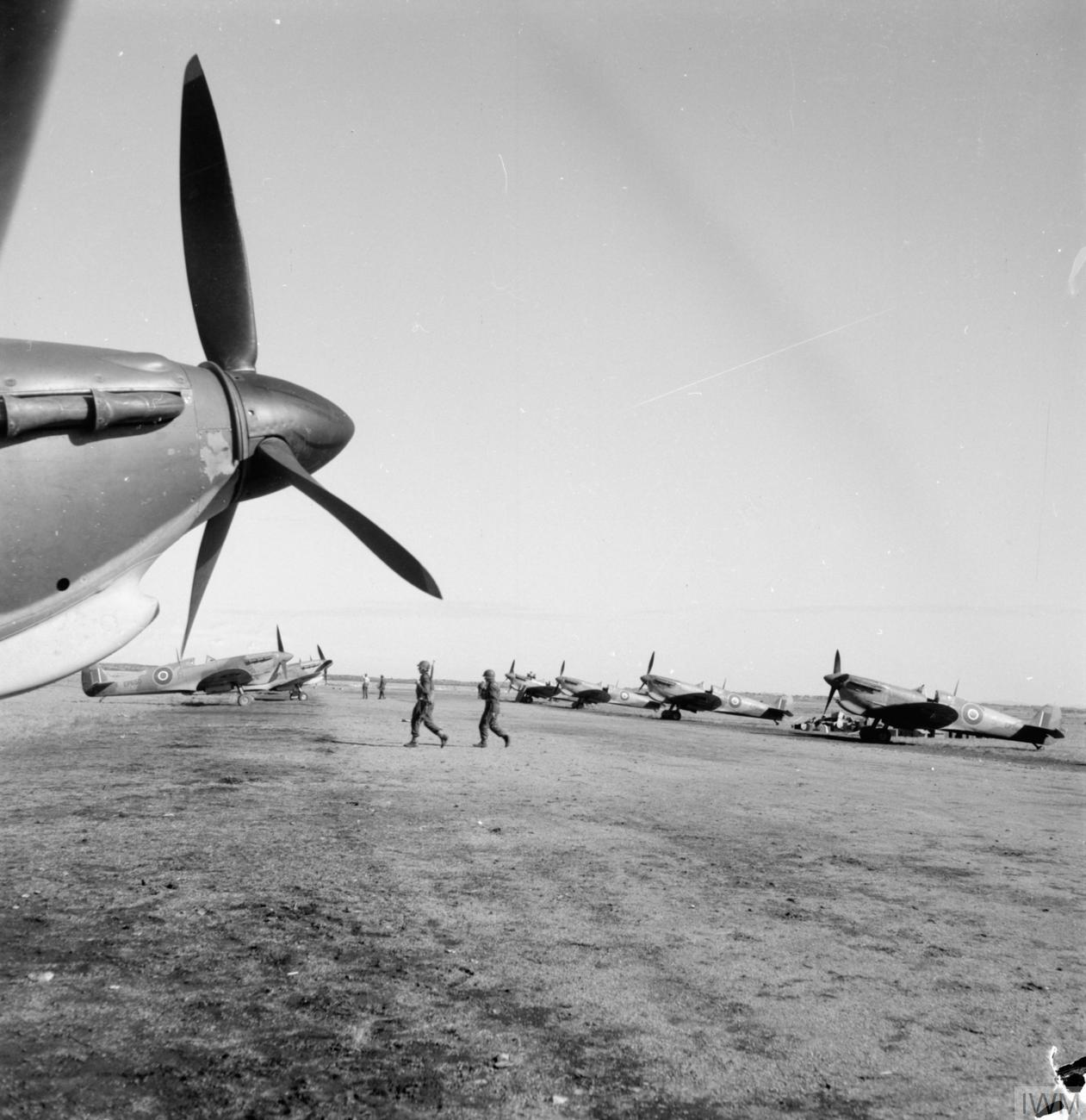 Royal Air Force Operations in the Middle East and North Africa, 1939-1943. Operation TORCH: Supermarine Spitfire Mark Vs, reinforcement aircraft for North African units, lined up at Bone, Algeria. The American soldiers crossing the concrete hard standing are members of the 1st Ranger Battalion, which guarded the airfield pending the arrival of RAF Regiment units.